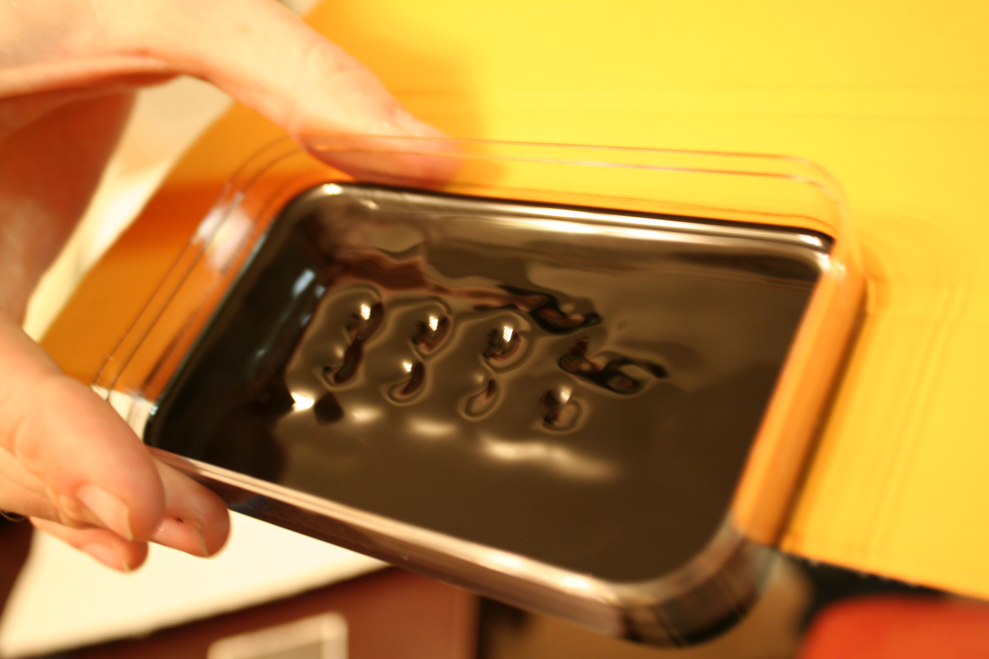 The fluid is placed in a container, and a magnet from an iPad case is causing the liquid to react